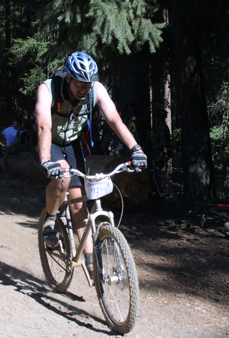 Steve Makin, finishing the 2002 Single Speed World Championships, in Downieville, California